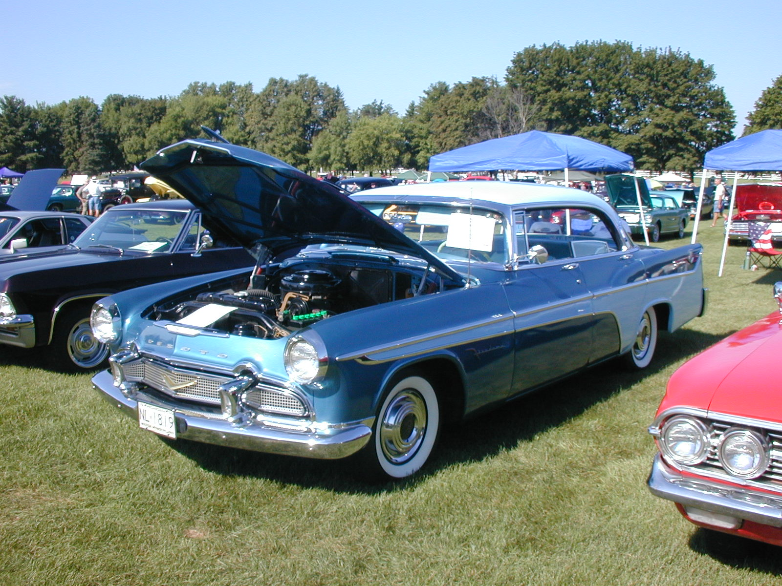 1956 De Soto Firedome Four-door Sportsman. Taken at the Gilmore Car Museum, Hickory Corners, Michigan, during the Red Barn Extravaganza car show 8/6/2005.